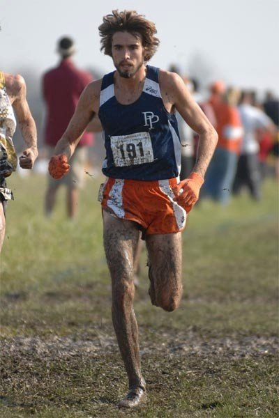 Will at the 2006 NCAA Division III Cross Country Championships